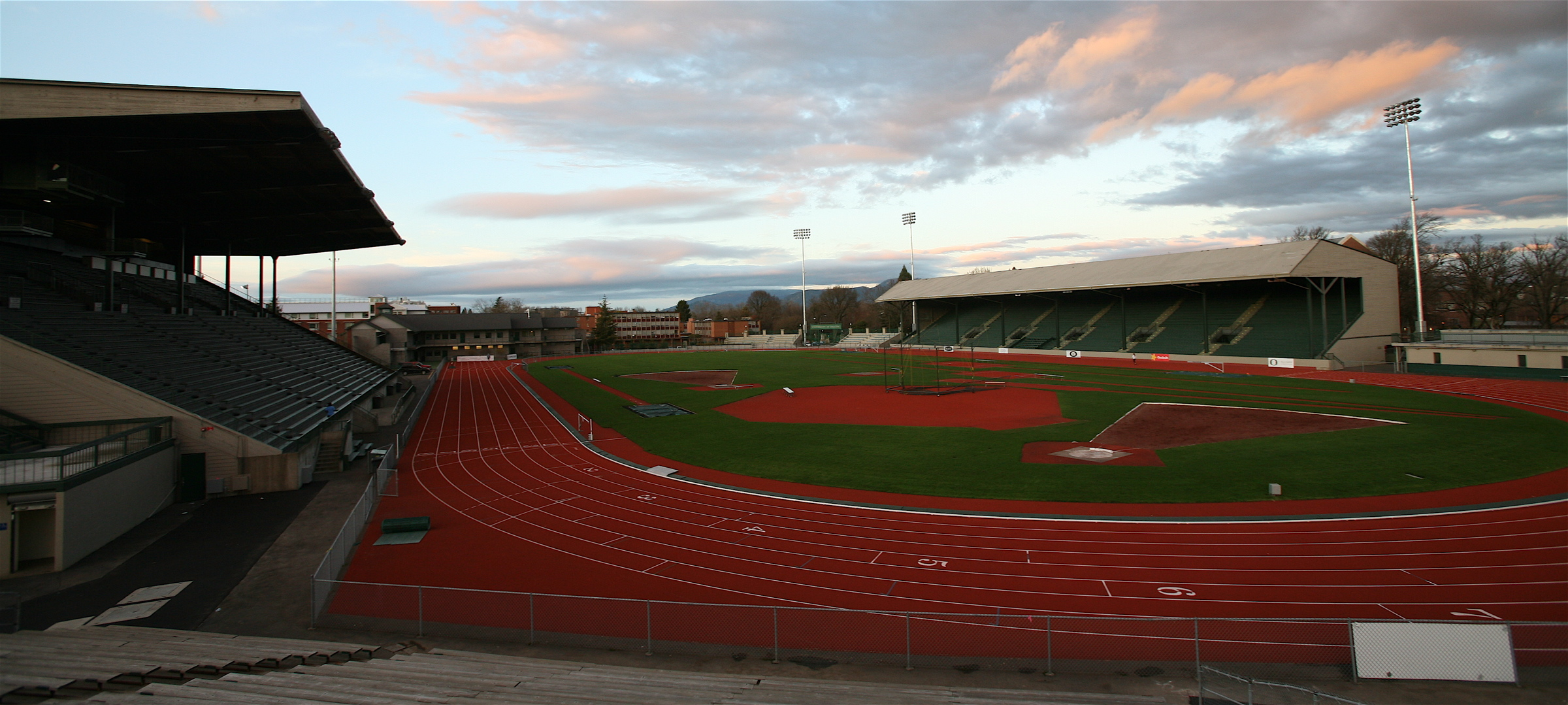 Hawyard Field on the University of Oregon campus.